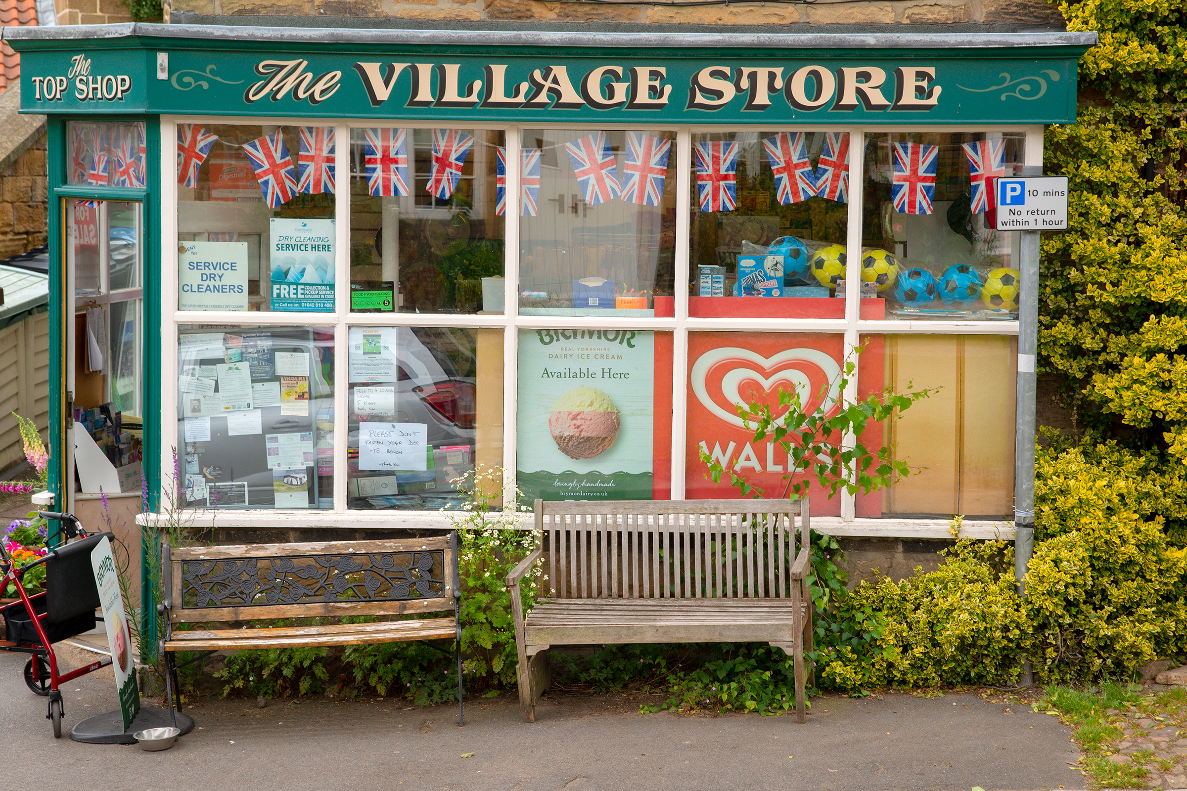 The Top Shop 15 North End Osmotherley